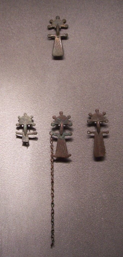 Fibulae found in a Lombard grave in Erbanno, Val Camonica, Italy. In Museum of Santa Giulia - Brescia